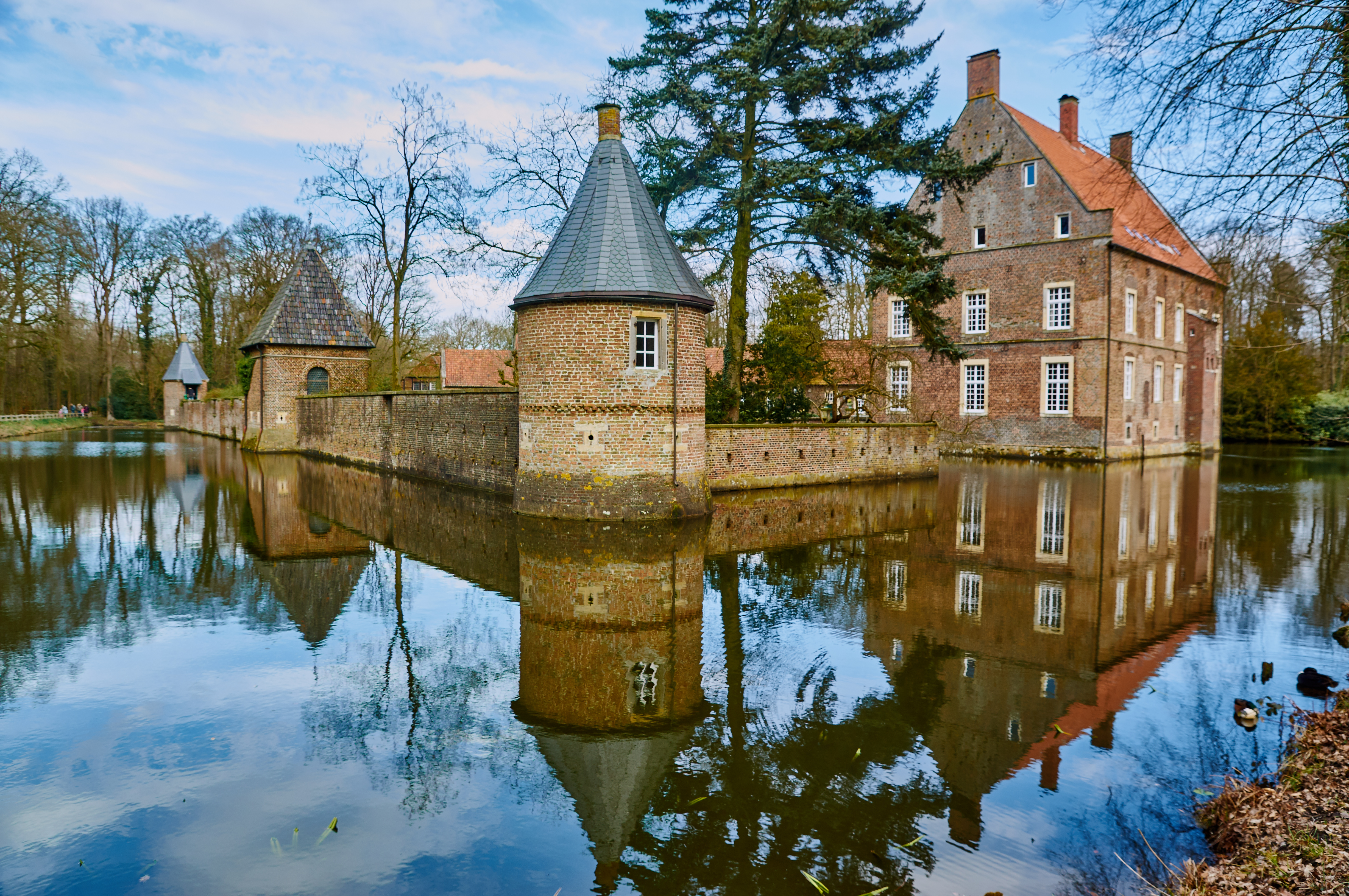 Haus Welbergen, a water castle in Welbergen, Ochtrup, North Rhine-Westphalia, Germany. This is a photograph of an architectural monument.